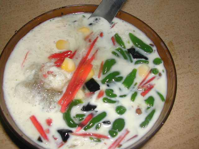 Cendol, or Chendol, dessert from Malaysia and Singapore. Photo taken by Brian Smith.